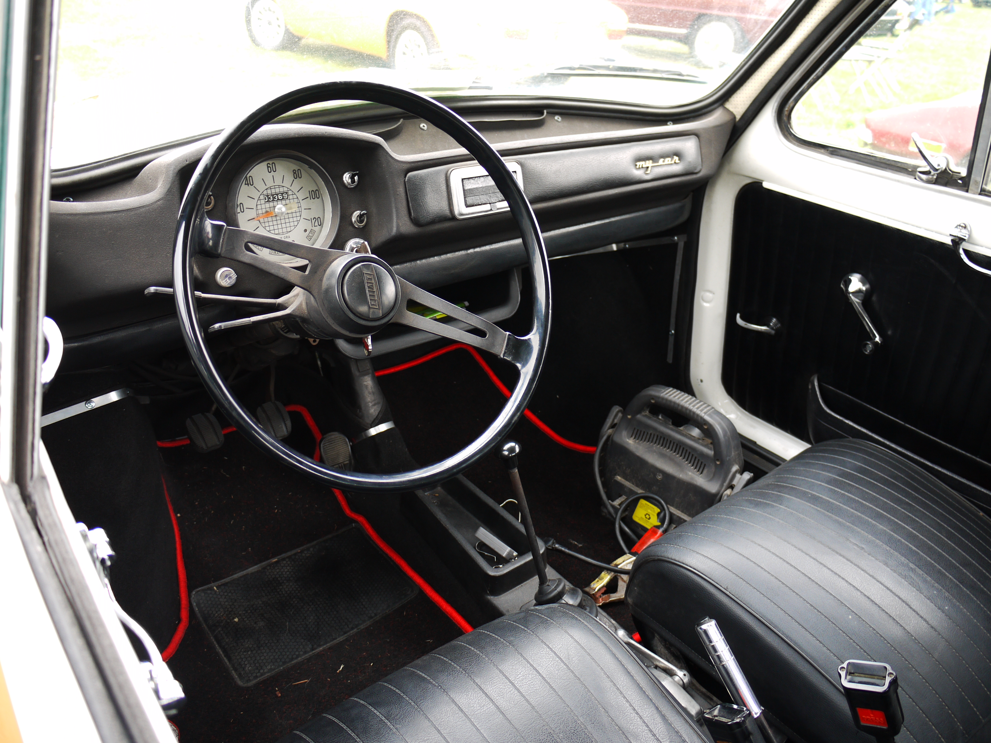 Fiat 500 Francis Lombardi My car